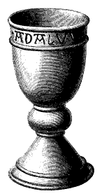 Grave chalice of bishop Adalvard the Elder of Skara (dead c.1064)